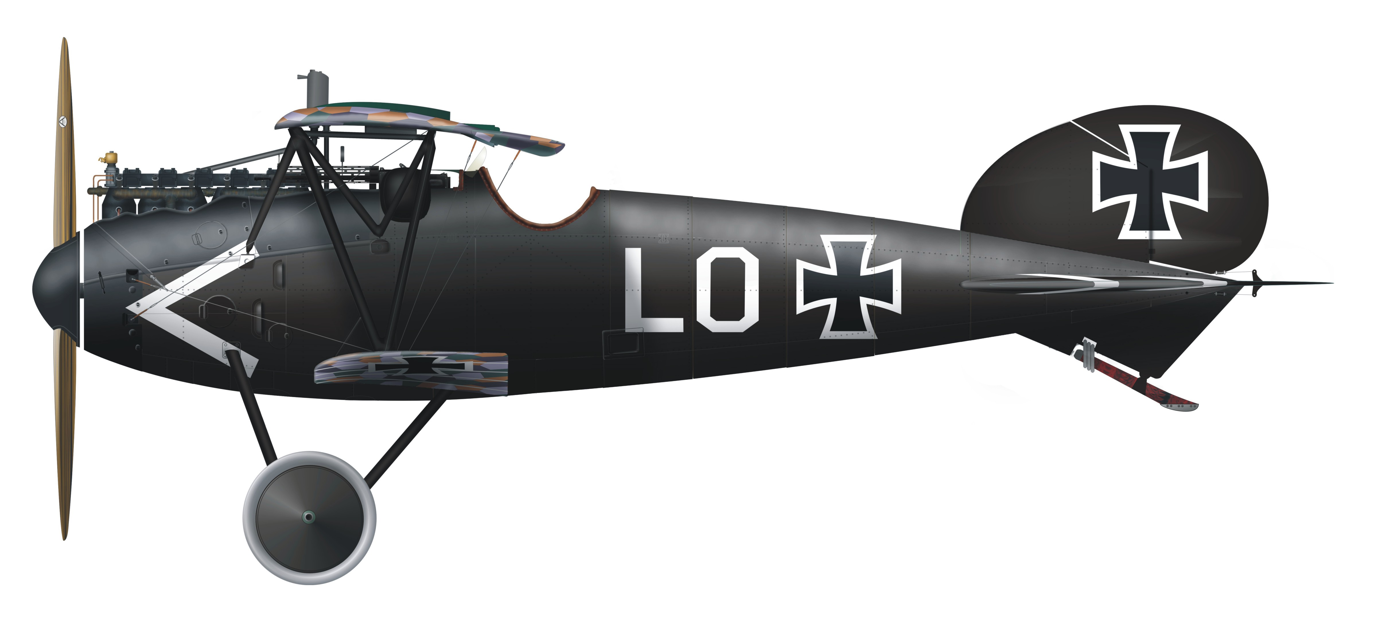 Albatros D.Va of Ernst Udet, Jasta 37